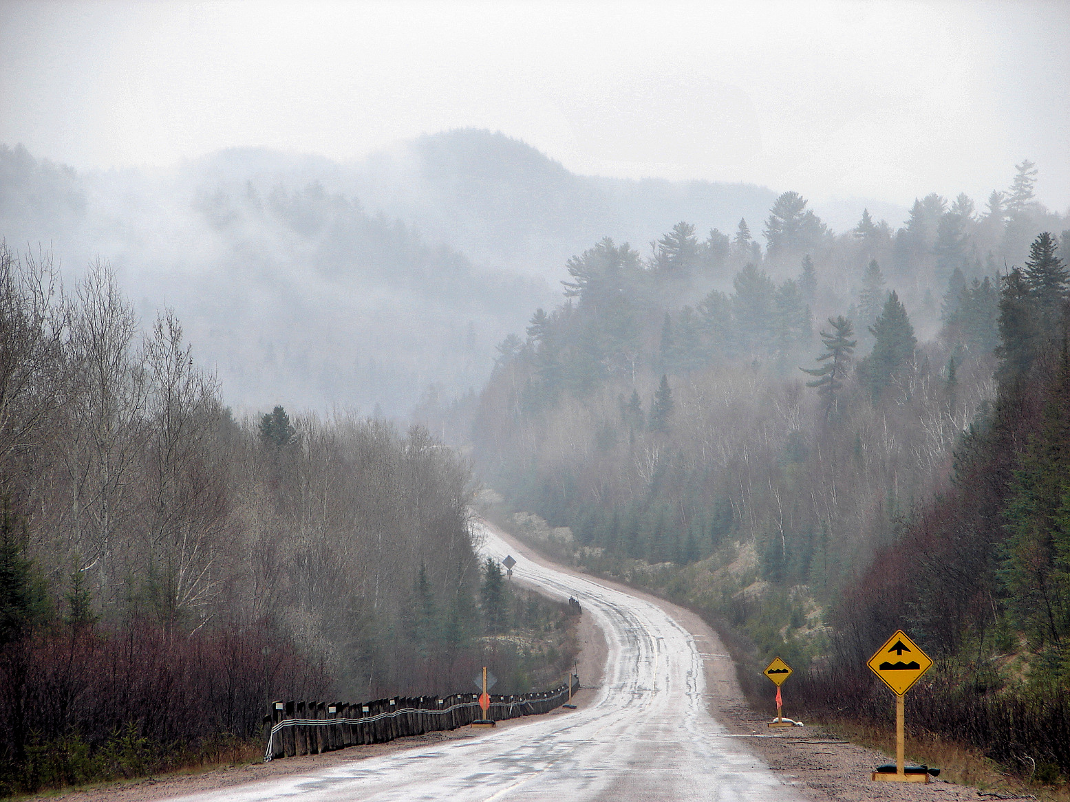 Highway 129, about halfway between Thessalon and Chapleau, Ontario, Canada